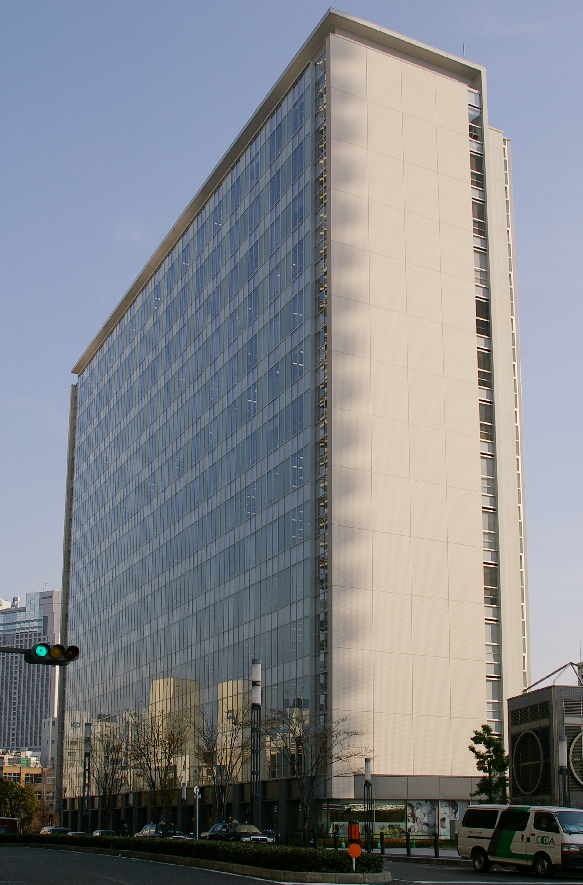 Photograph of Namba Sankei Building, Sankei Shimbun Osaka office, in Naniwa-ku, Osaka, Osaka Prefecture, Japan.